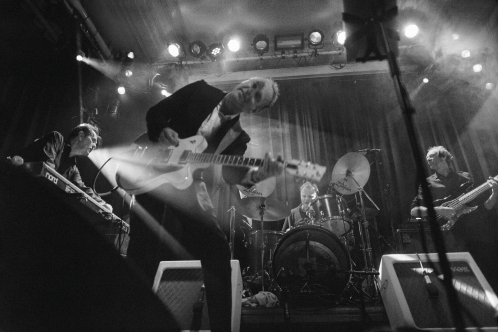 The Dutch, Amsterdam based pop group, play in the Paradiso, Amsterdam, in September 2014